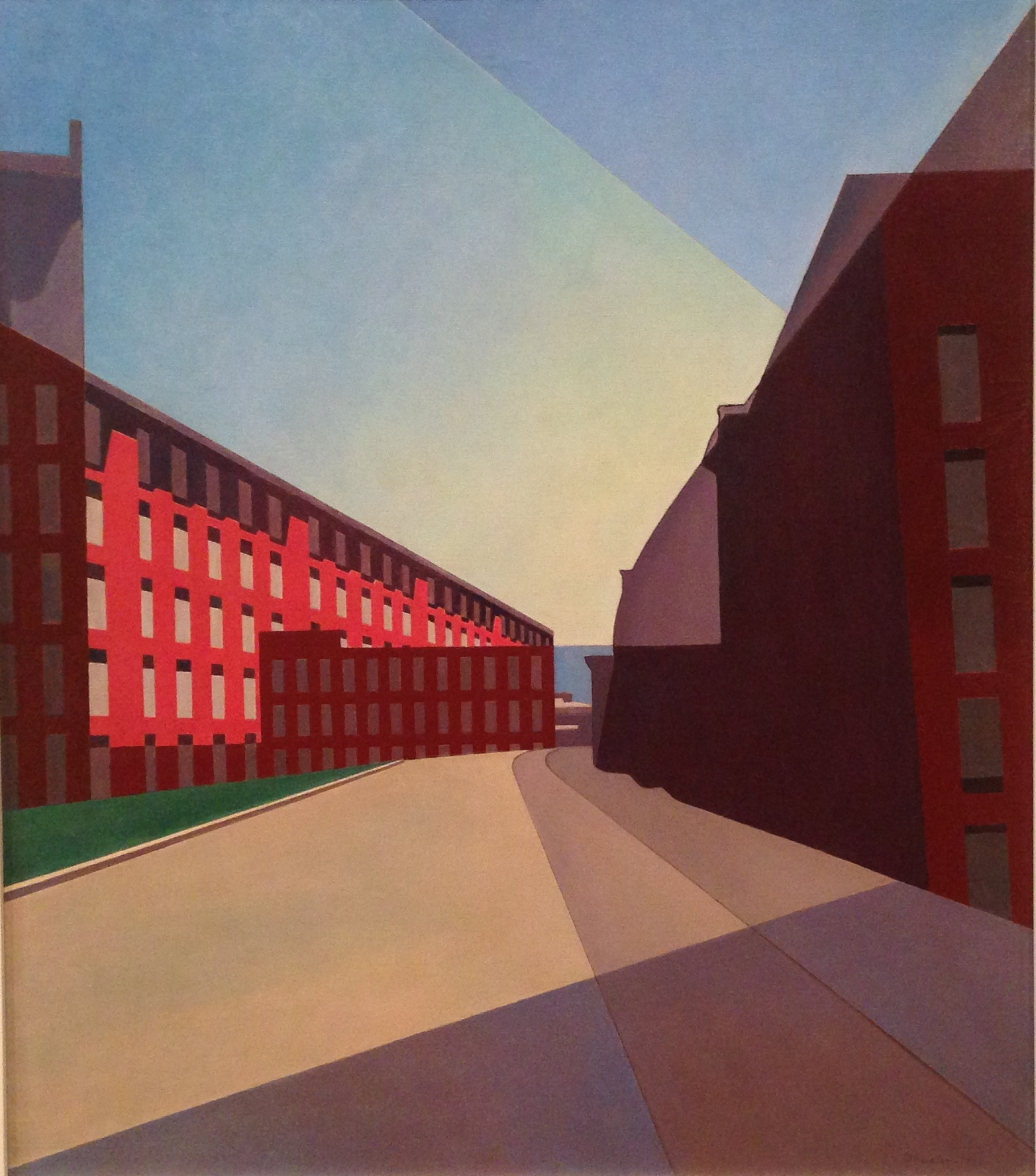 Amoskeag Mills 2 by Charles Sheeler. Painting from 1948. Depiction of the Amoskeag Mills in Manchester, New Hampshire. Painting was on display at the Crystal Bridges Art Museum in Bentonville, Arkansas.